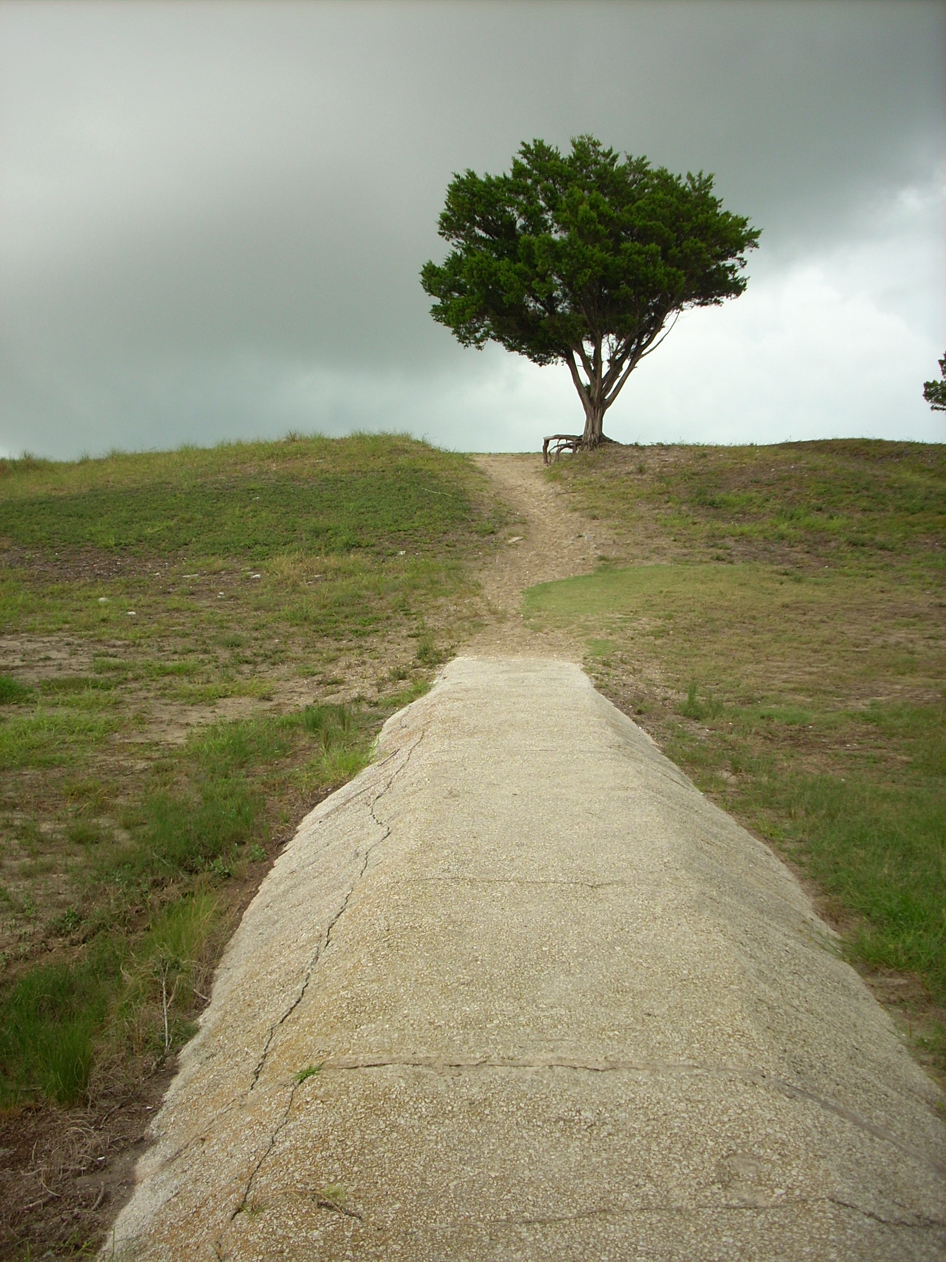 A lone tree at Zeke’s Island Reserve, Fort Fisher, North Carolina.